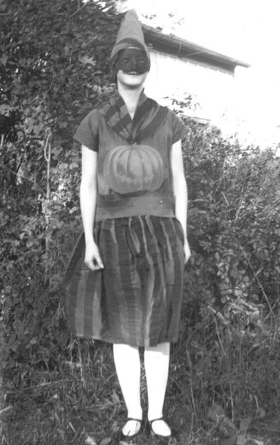 Waterdown Public School, Waterdown Ontario Canada. Students, Teachers, field trip and camping and farm shots, in Ontario..